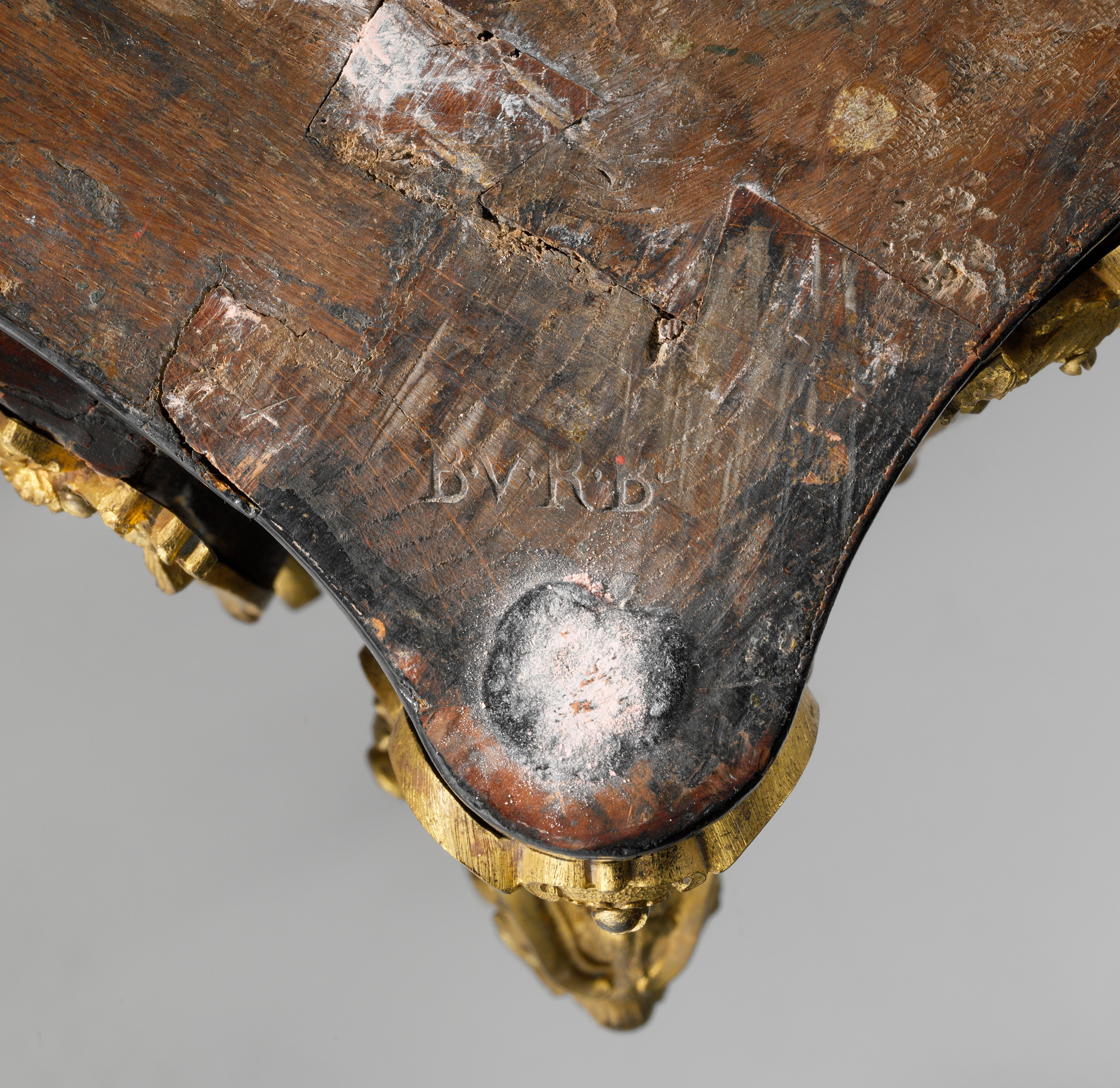 French, Paris; Commode; Woodwork-Furniture